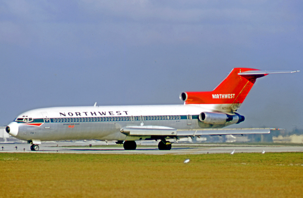 Boeing 727-251 N256US of Northwest Airlines at Miami Airport in 1971